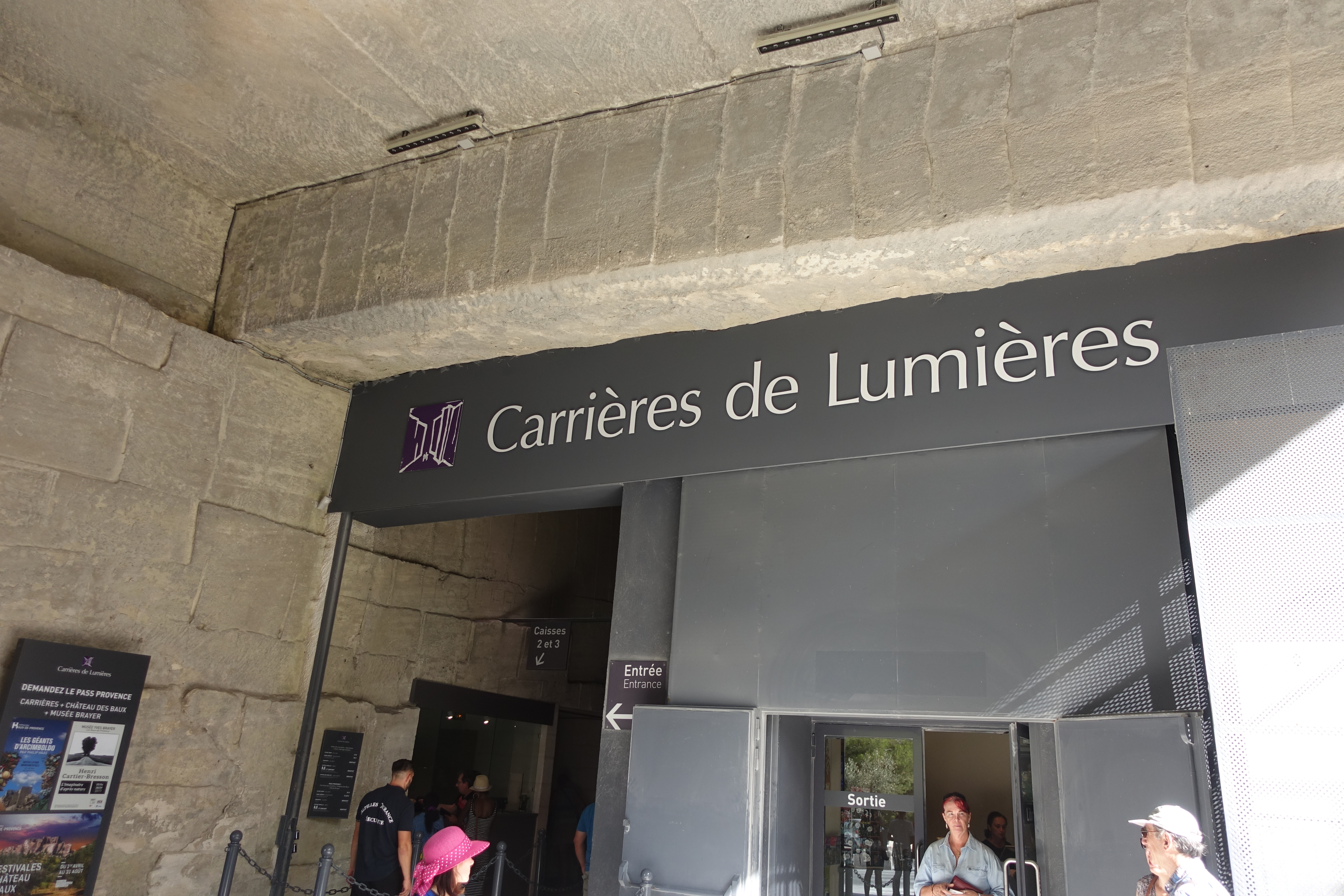 Carrières de Lumières in 2017, France